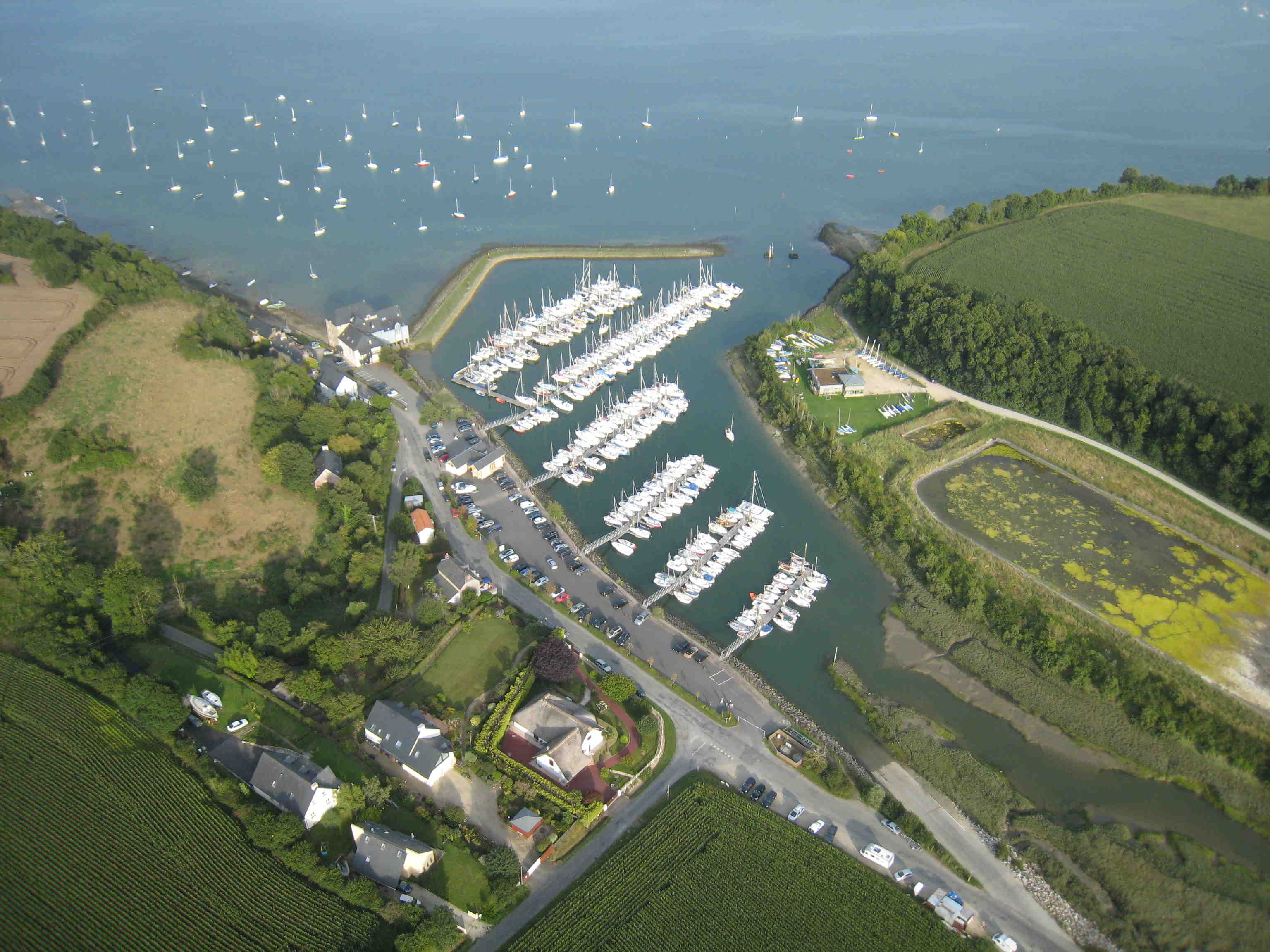 boat harbour - Plouer-sur-Rance (Brittany-France)